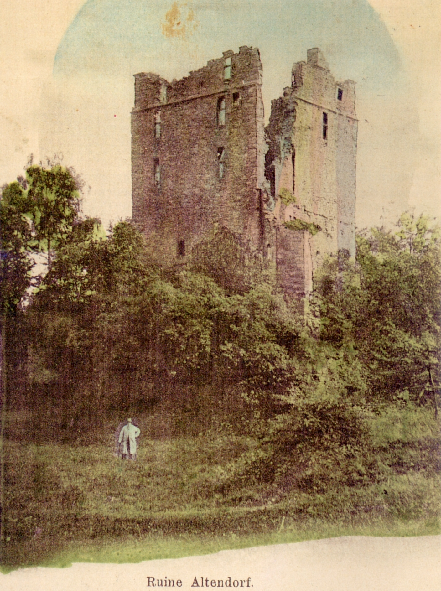 Altendorf Castle on an old postcard.